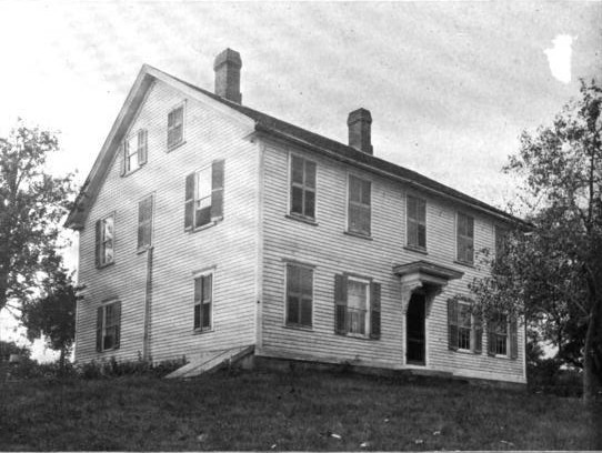 This is a pic from page 85 of: "The Remains of General Greene," By Rhode Island General Assembly. Joint Special Committee on the Remains of Maj. Gen. Nathanael Greene, Edward Field, Asa Bird Gardiner, Rhode Island General Assembly, 1903 Published 1903 E.)